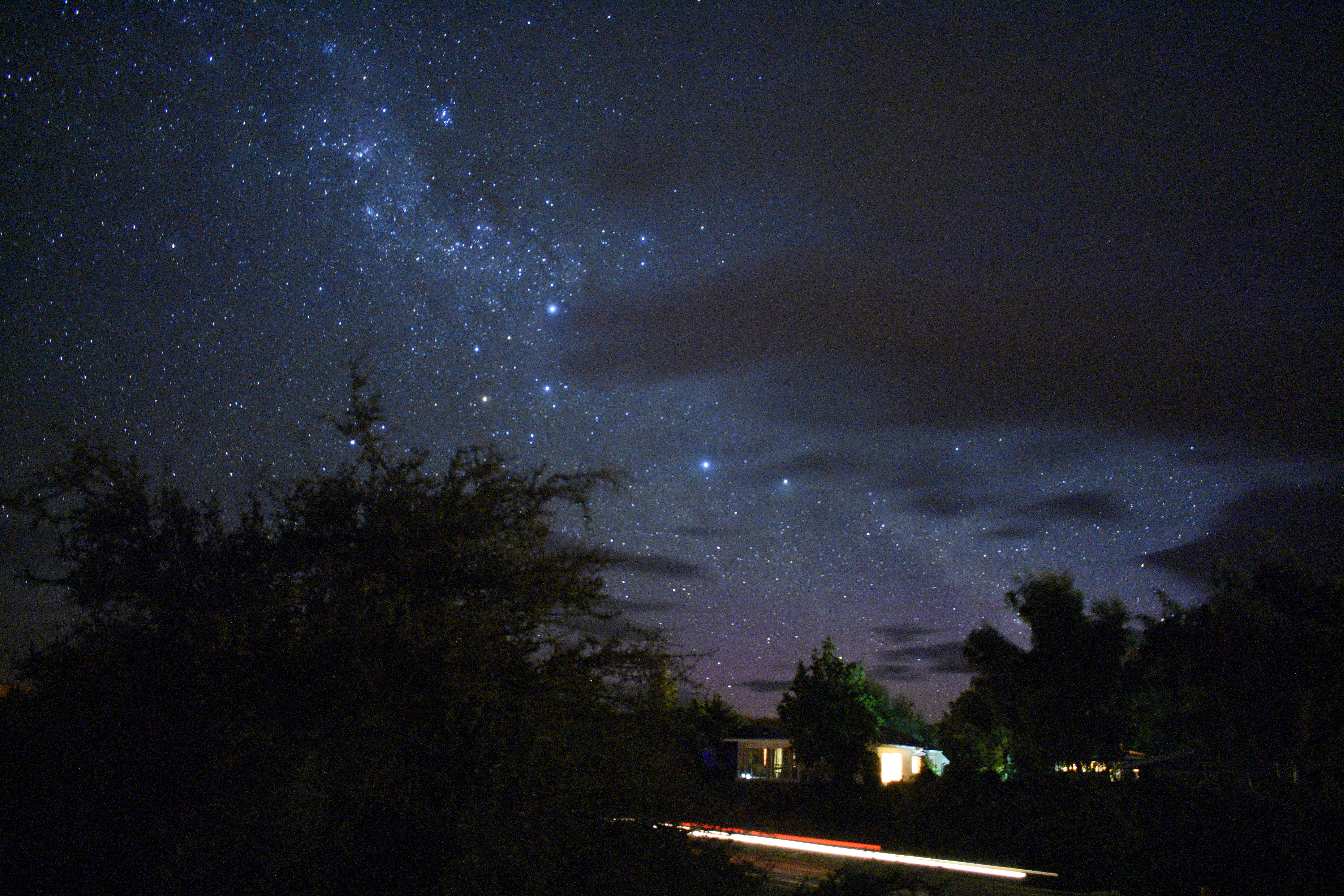 Milky way galaxy: stargazing view in lake tekapo in New Zealand, south island, Mackenzie region, (?)th December 2017.